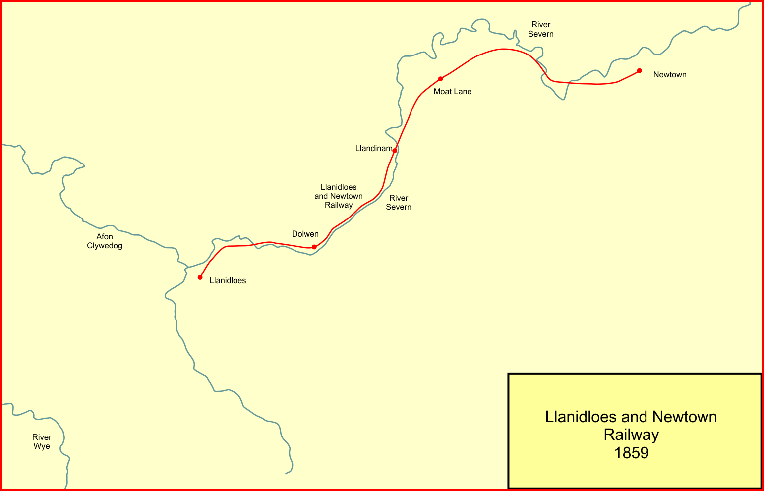 System map of the Llanidloes and Newtown Railway, Wales, in 1859